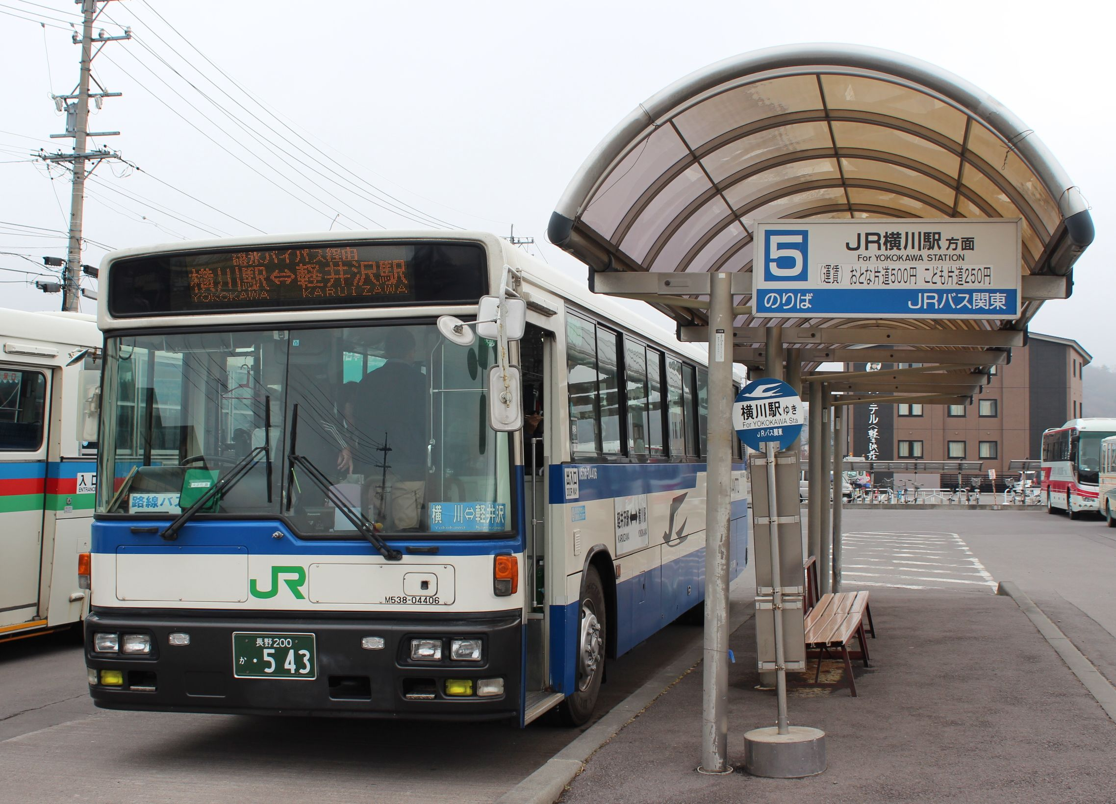 JR Bus Usui Line Karuizawa Station Bus Stop